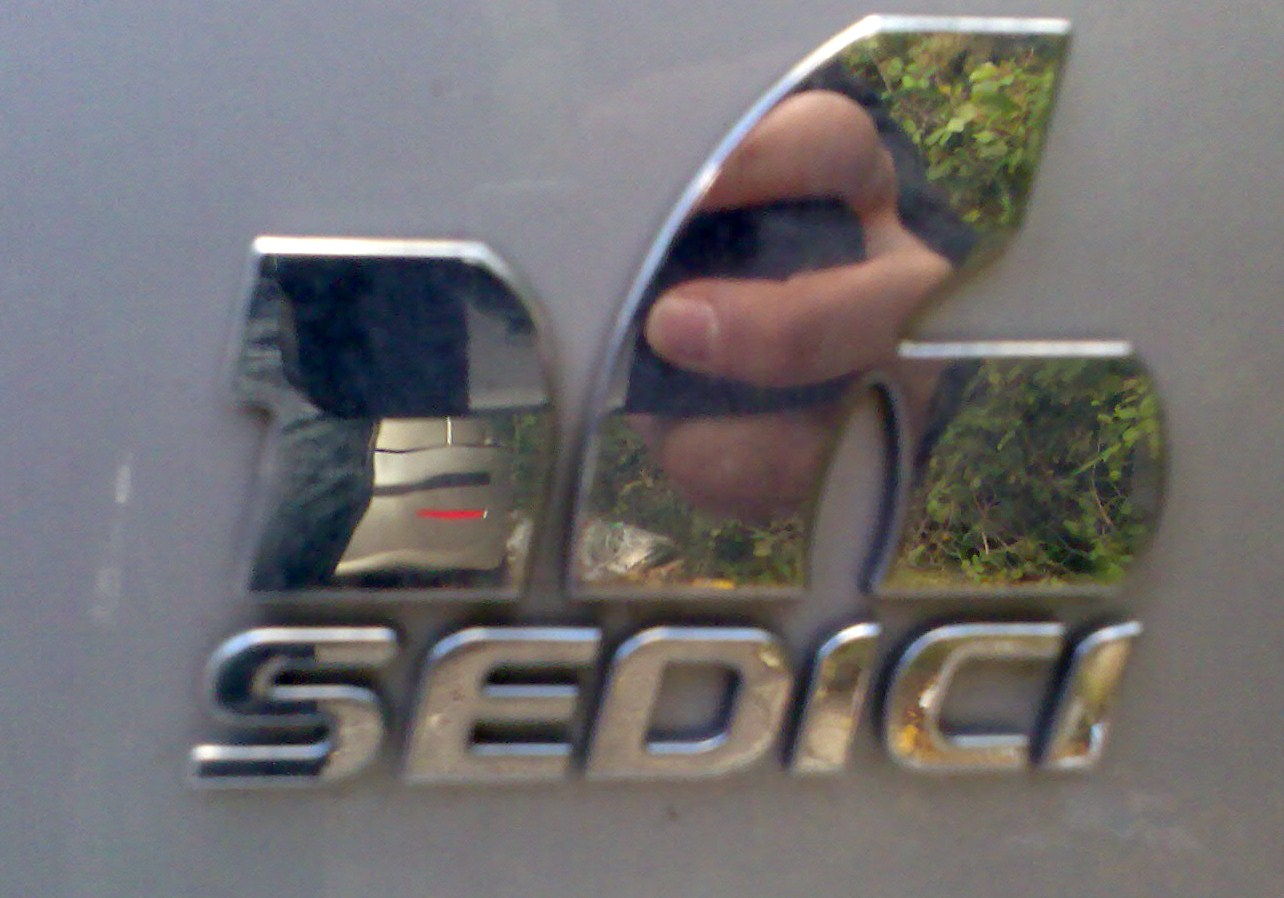 Fiat Sedici logo